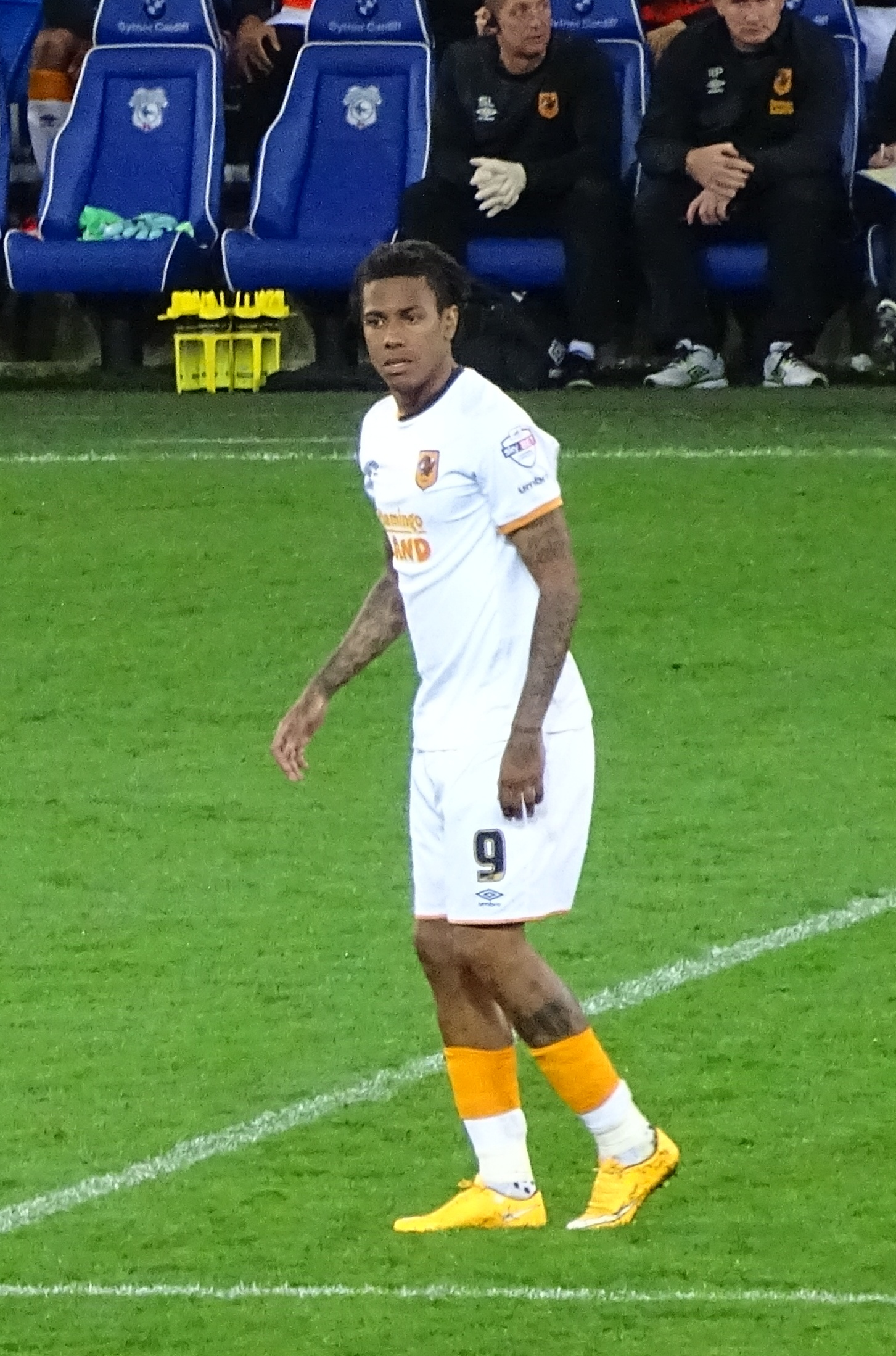 Footballer Abel Hernandez in 2015.